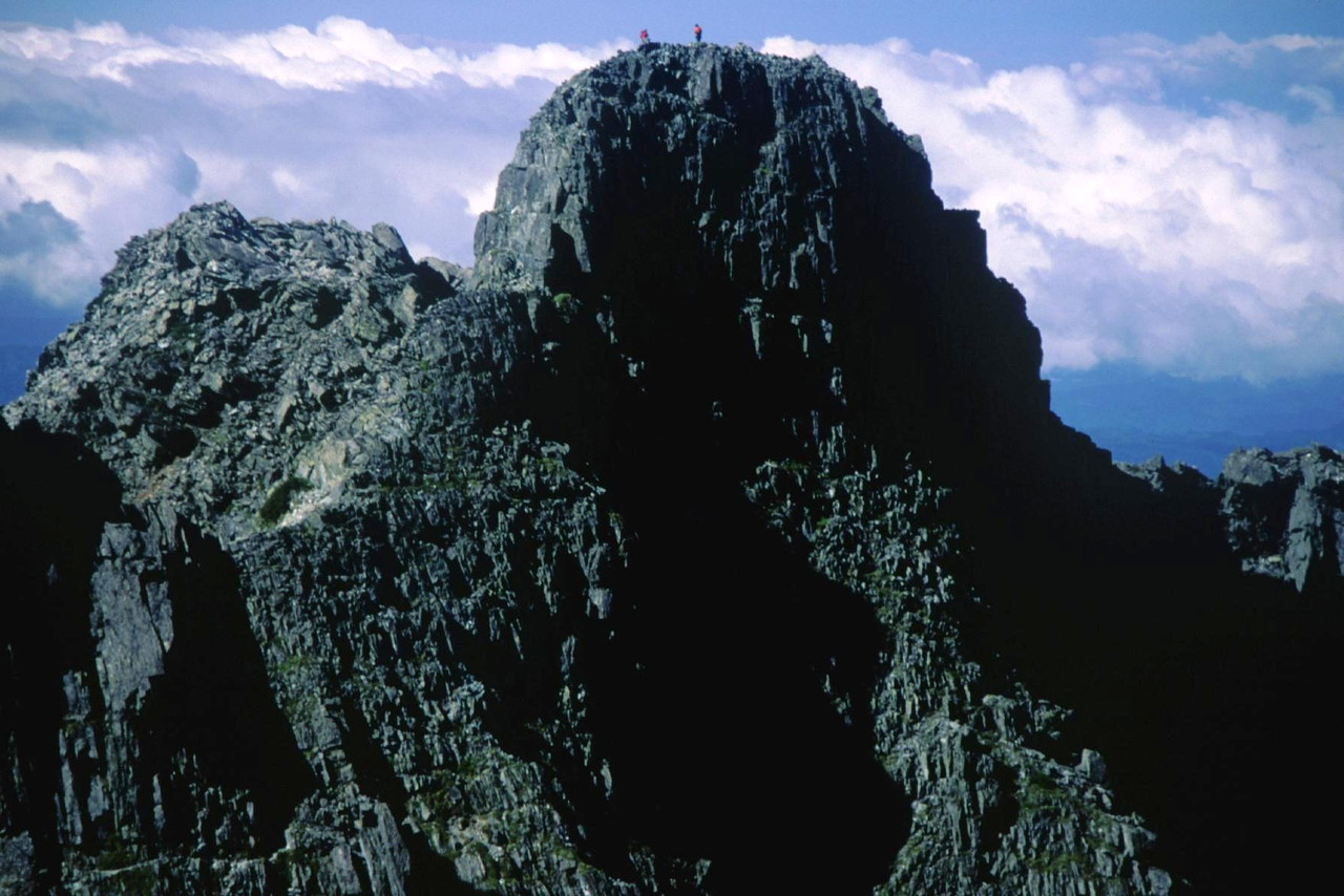 Gens_d'armes seen from Mount Okuhotaka in Hida Mountains, Japan.